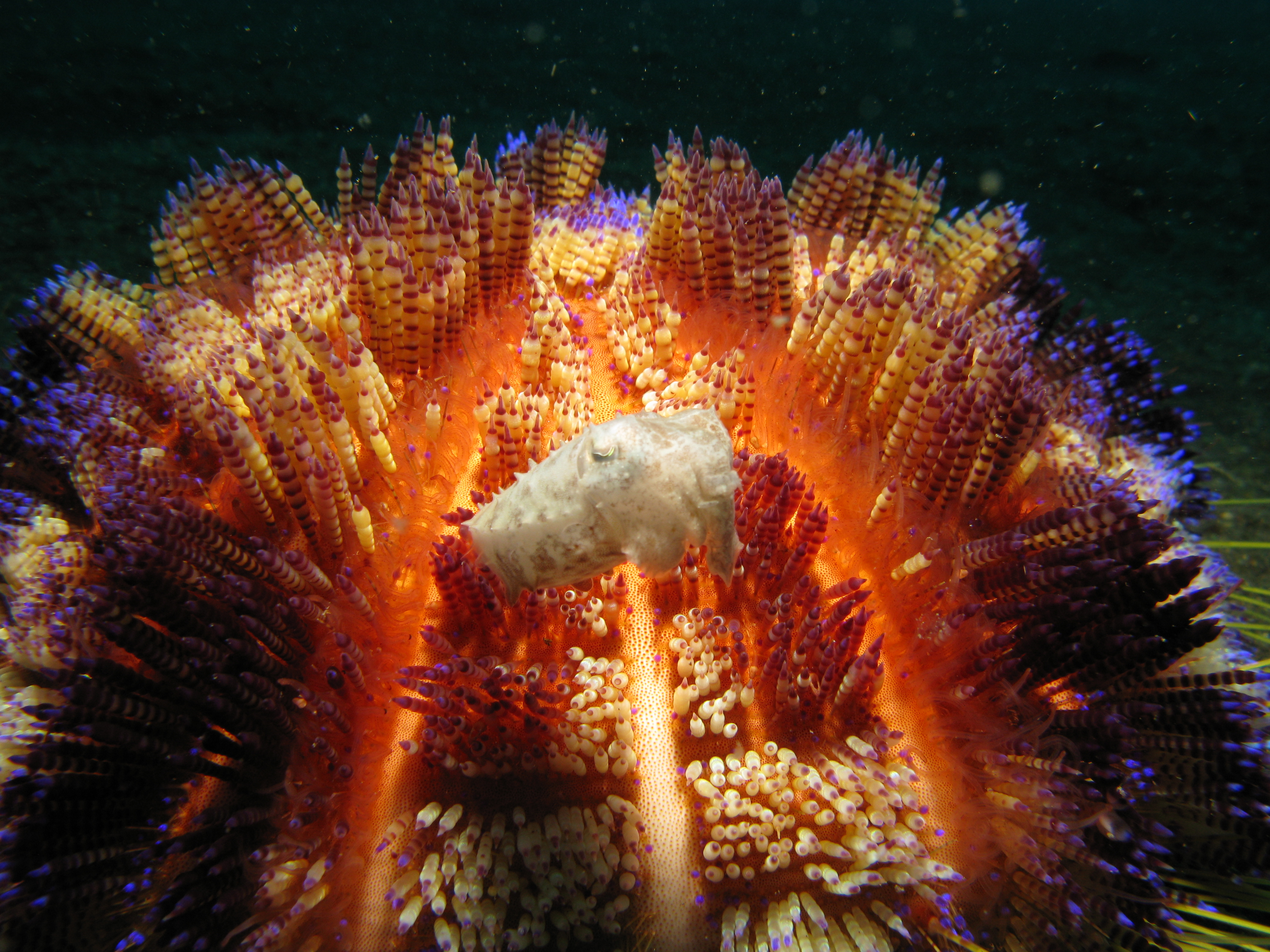 Pygmy Cuttlefish on Fire Sea Urchin (Asthenosoma varium).